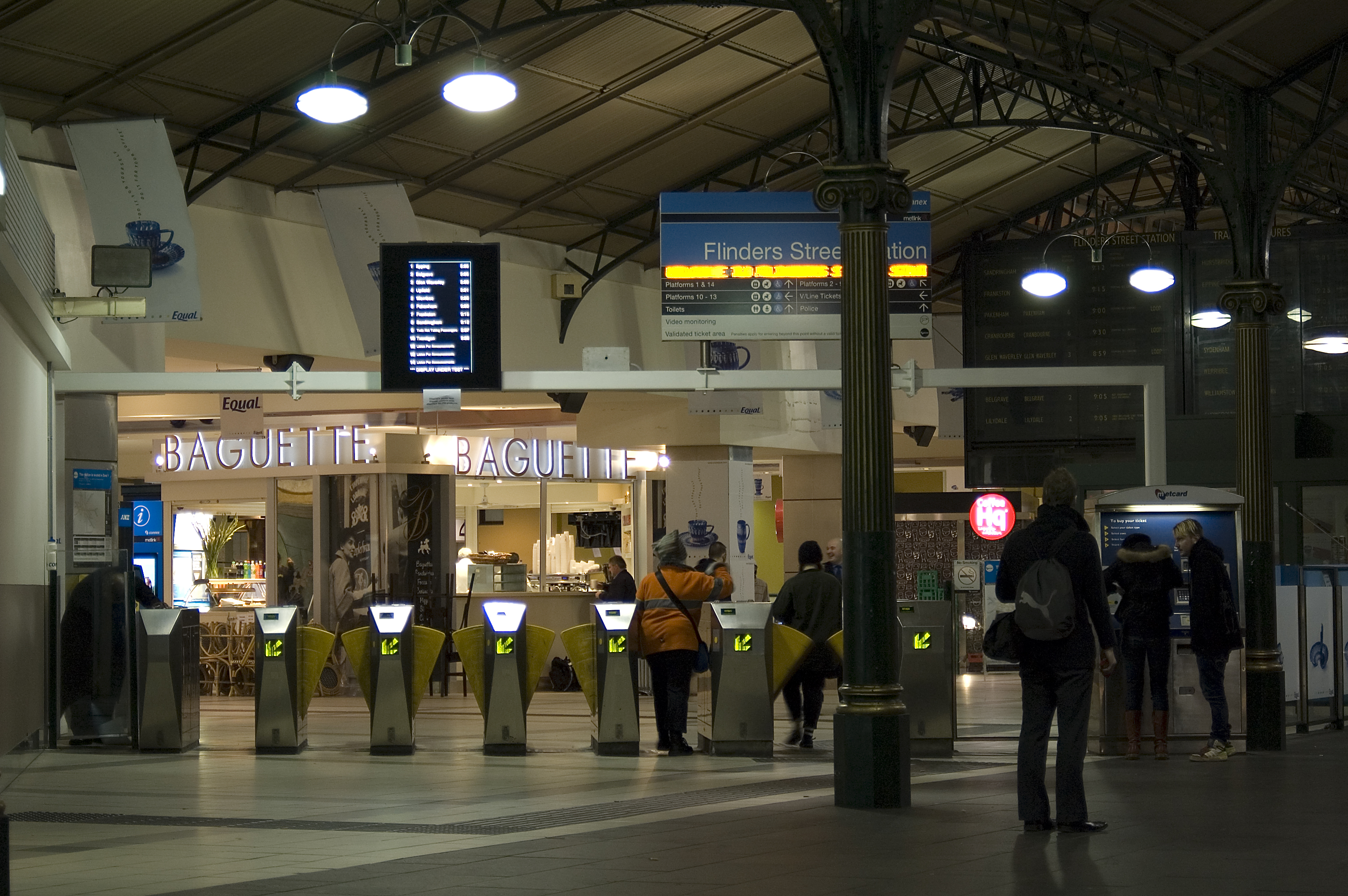 Ticket barriers at eastern entrance to Flinders Street Station in Melbourne.